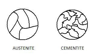 grain struture of material